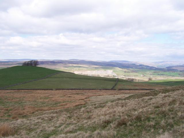 View of Swinden Limestone Quarry, Skelterton Hill to the left